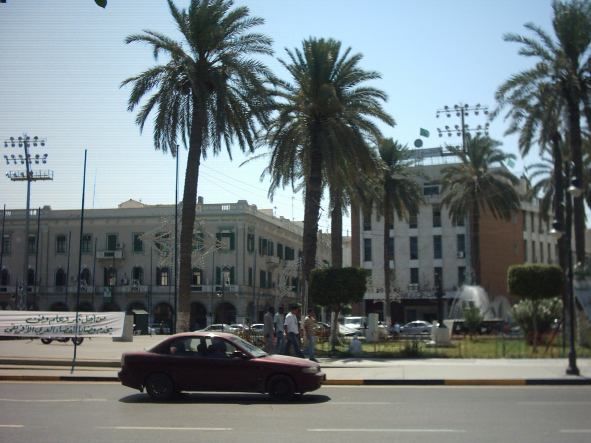 Green Square, located near the waterfront in Tripoli.